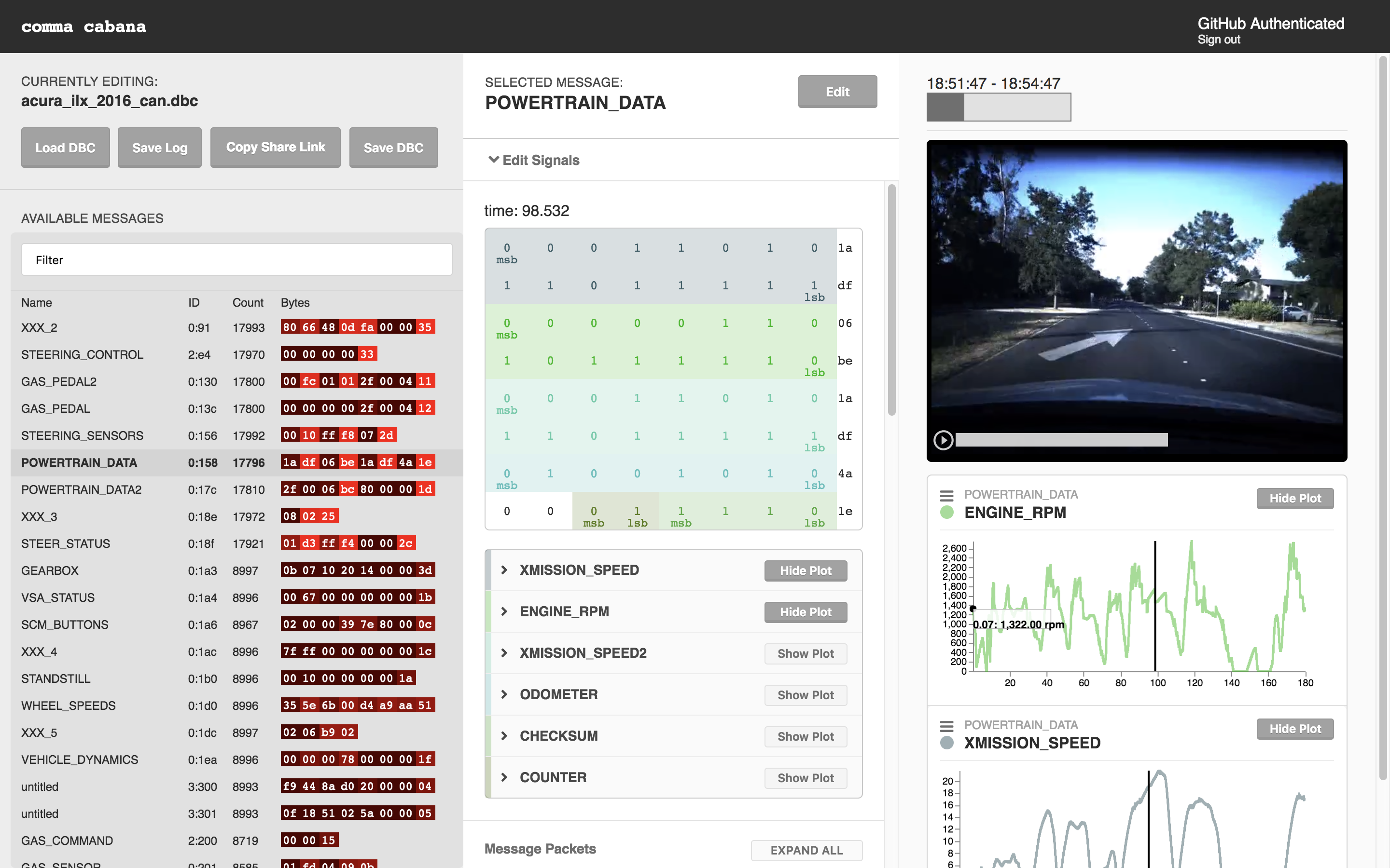 screenshot of car CAN data in the comma.ai cabana program